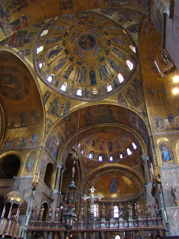 Saint Mark's Basilica, Venice, Veneto, Italy. Cupola of the Ascension at the transept crossing.